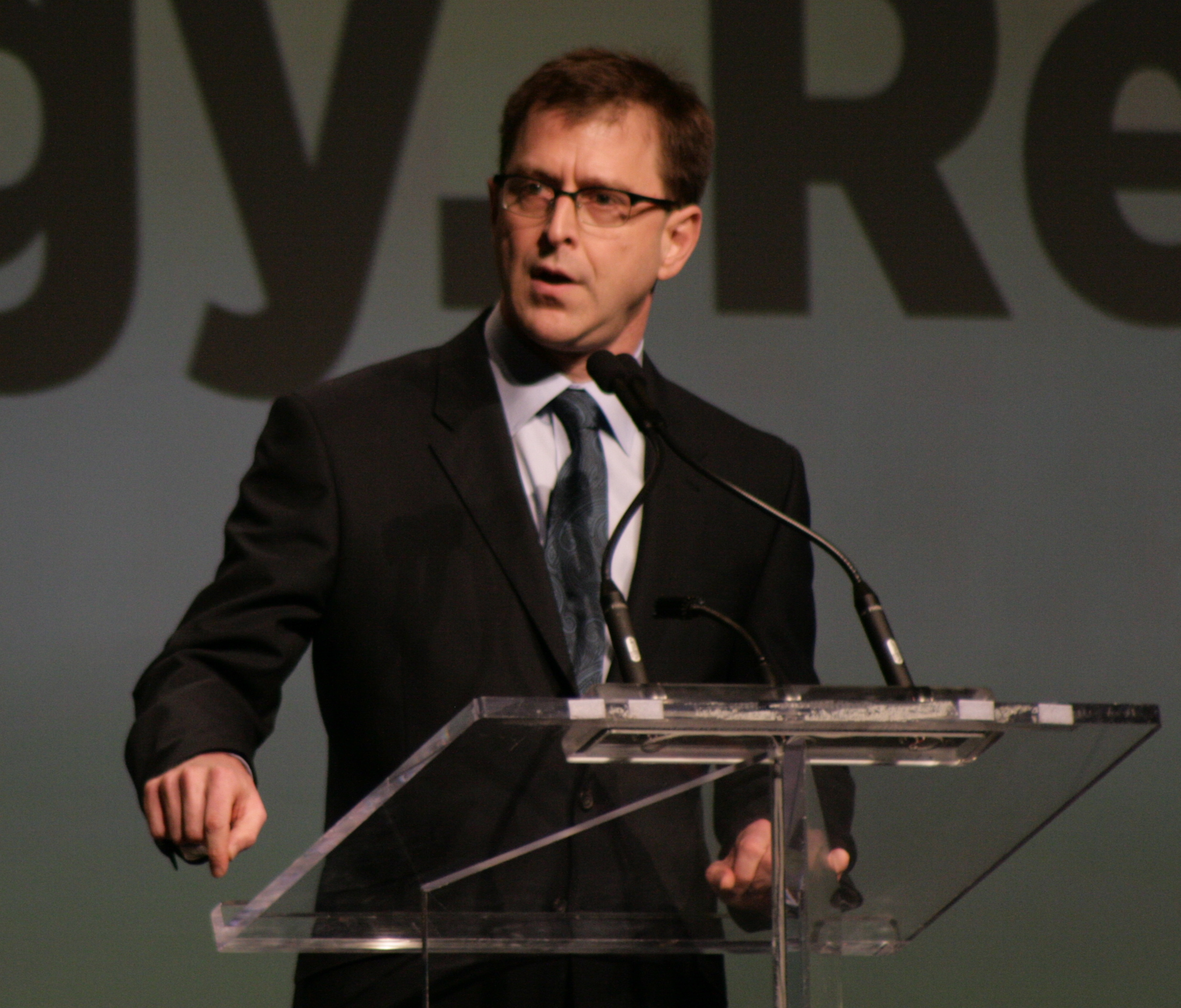 Adrian Dix addresses crowd at NDP Leadership Convention, 2011.